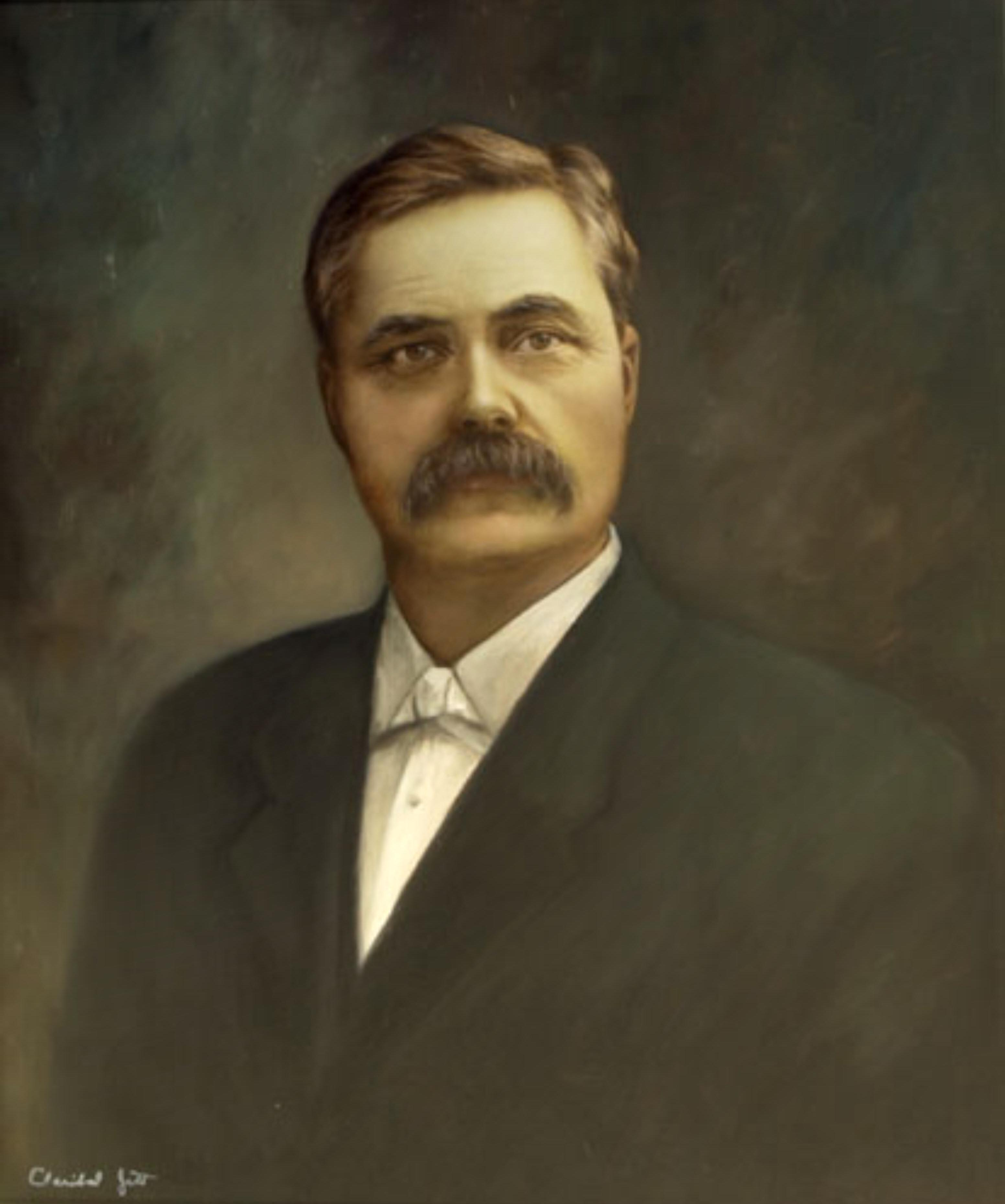 This portrait is the work of the U.S government, though its copyright is expired since the picture was taken within his term, long before the 1923 public domain cutoff.